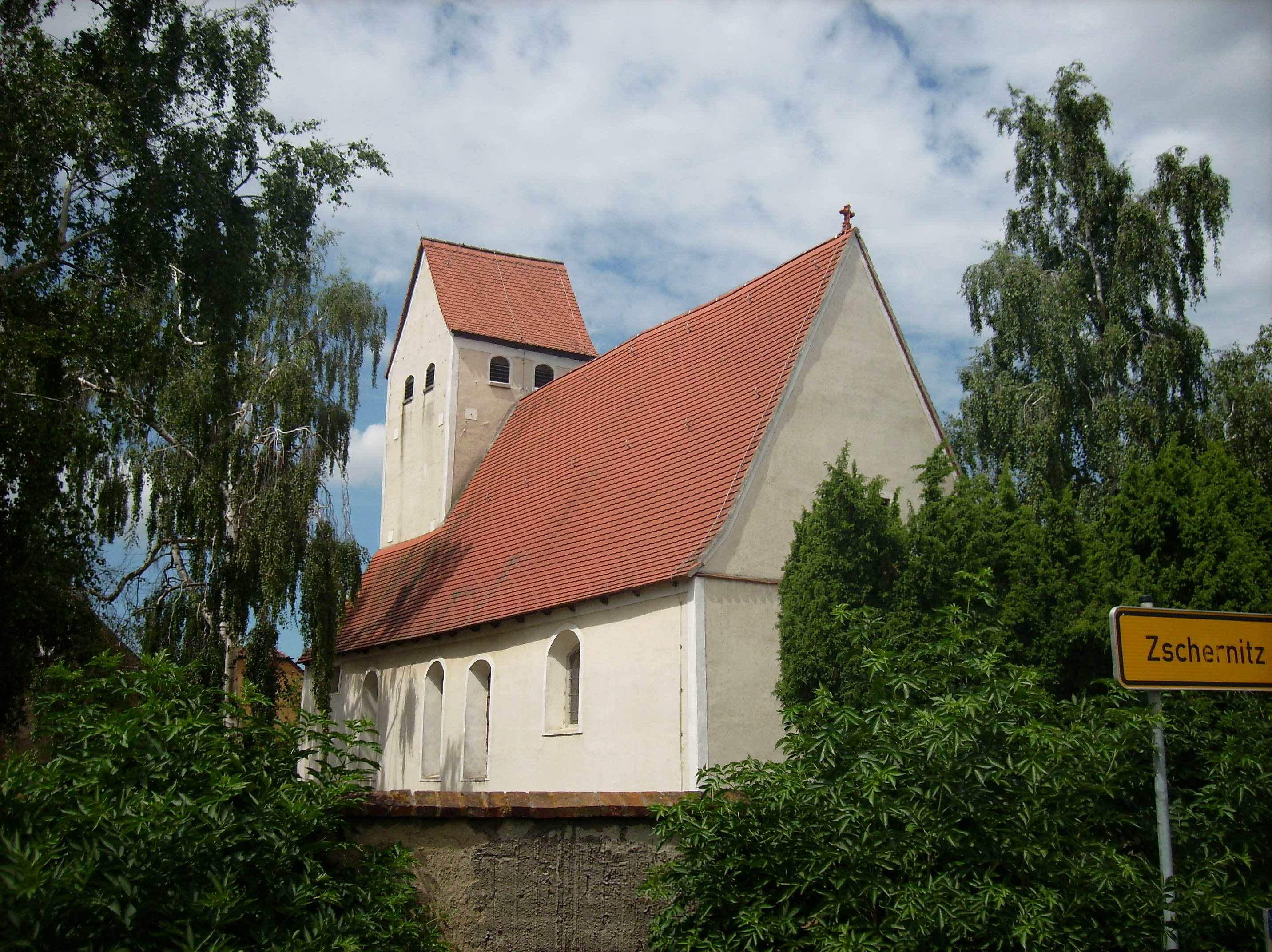 Church of the village of Klitschmar (Wiedemar, Nordsachsen district, Saxony)